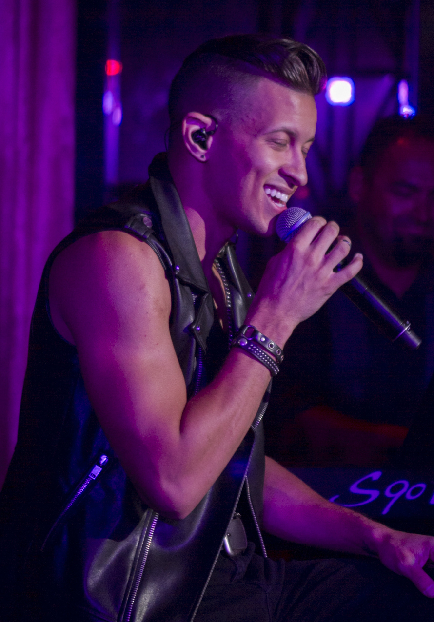 Chaz Robinson, a man, singing while seated, wearing a leather vest, and smiling.